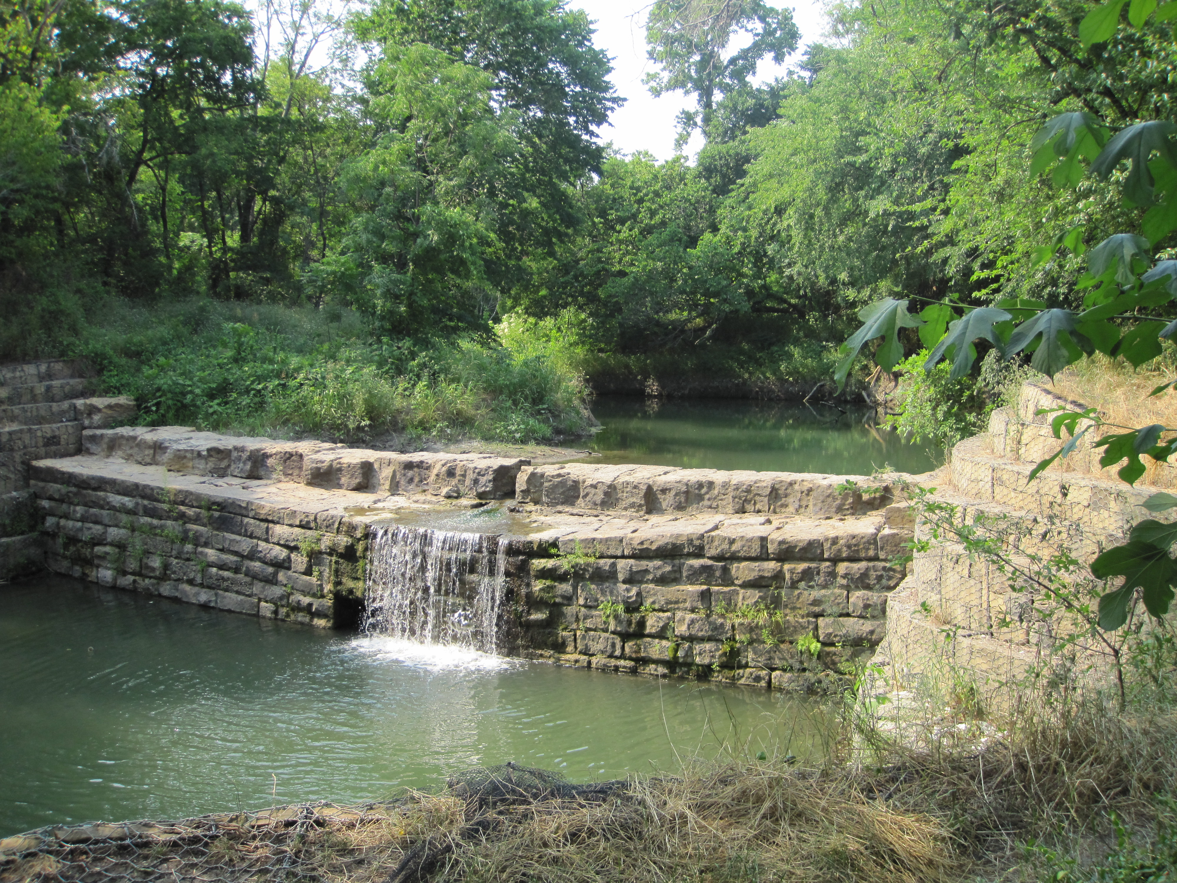 Allen Water Station One of the only remaining stone dams in the United States used as a water station for the Houston and Texas Central Railroad (H&TC) railway. The remaining site includes the stone dam, a foundation for a pump house and a foundation for a water tower